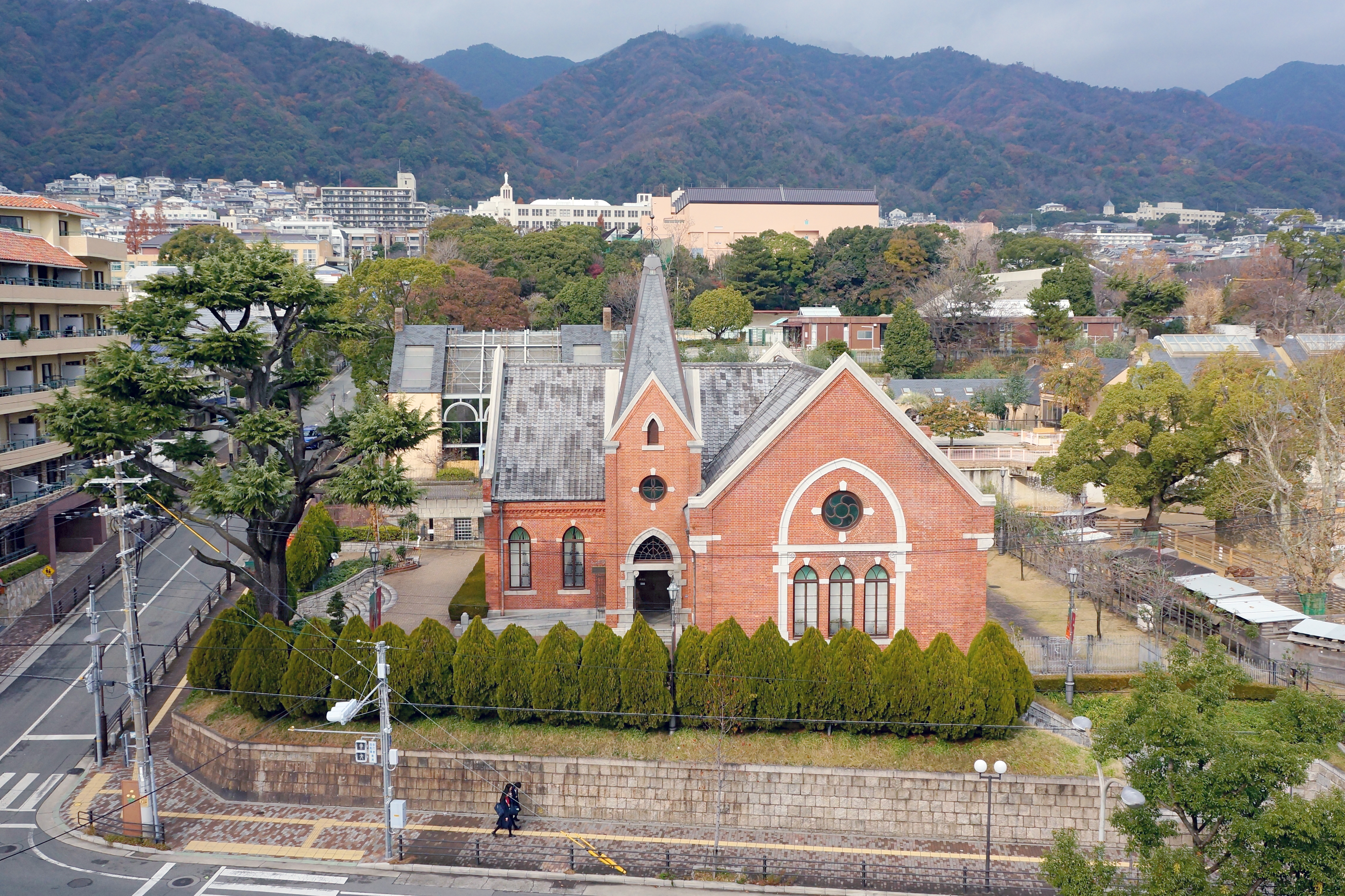 Kobe City Museum of Literature in Kobe, Hyogo prefecture, Japan